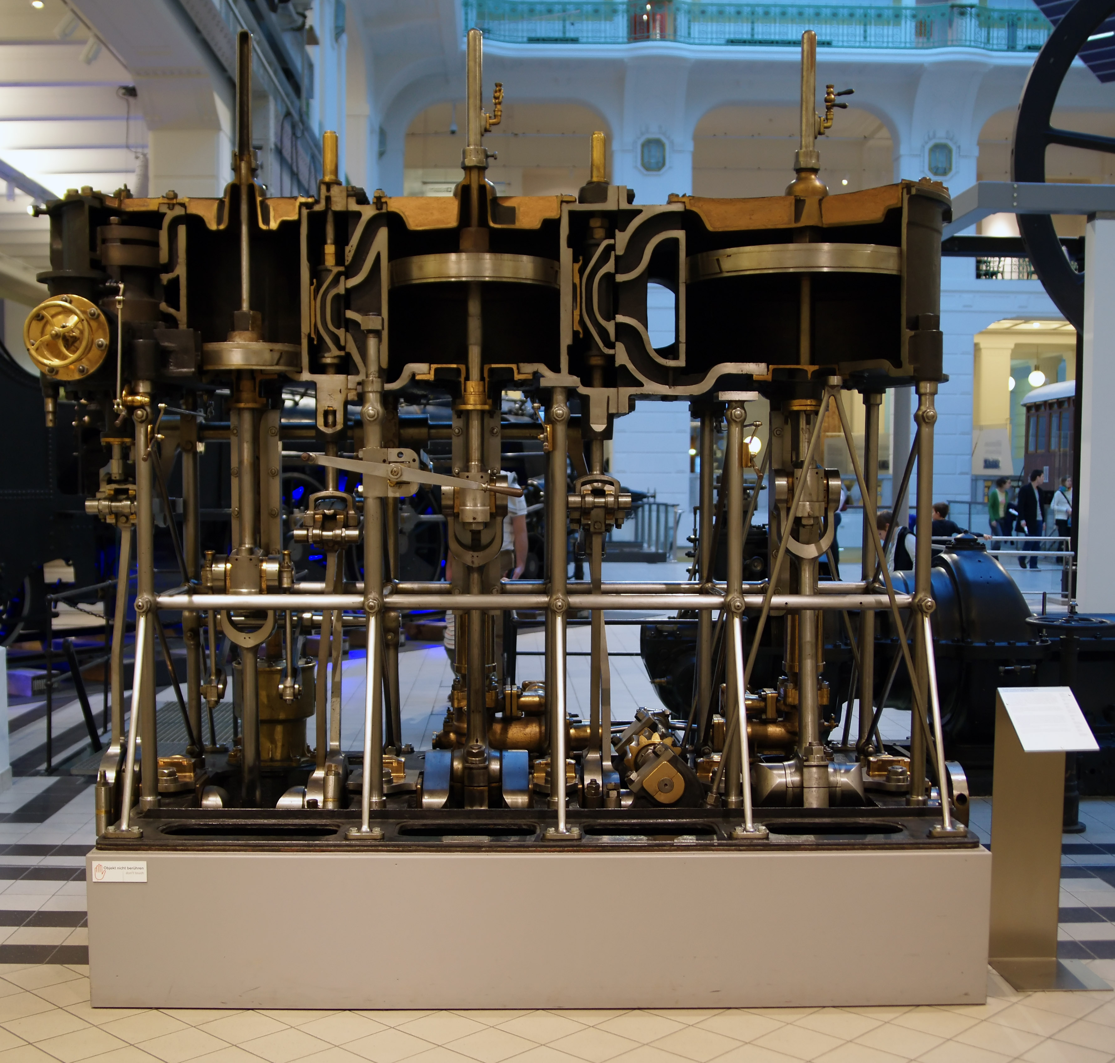 Cutaway of triple expansion compound steam engine, originally installed on the Austrian torpedo boat Weihe. Built by Eibinger Schichau-Werft 1888, power 660 kW, ship's speed 17.5-22 kt at 280-370 rpm.